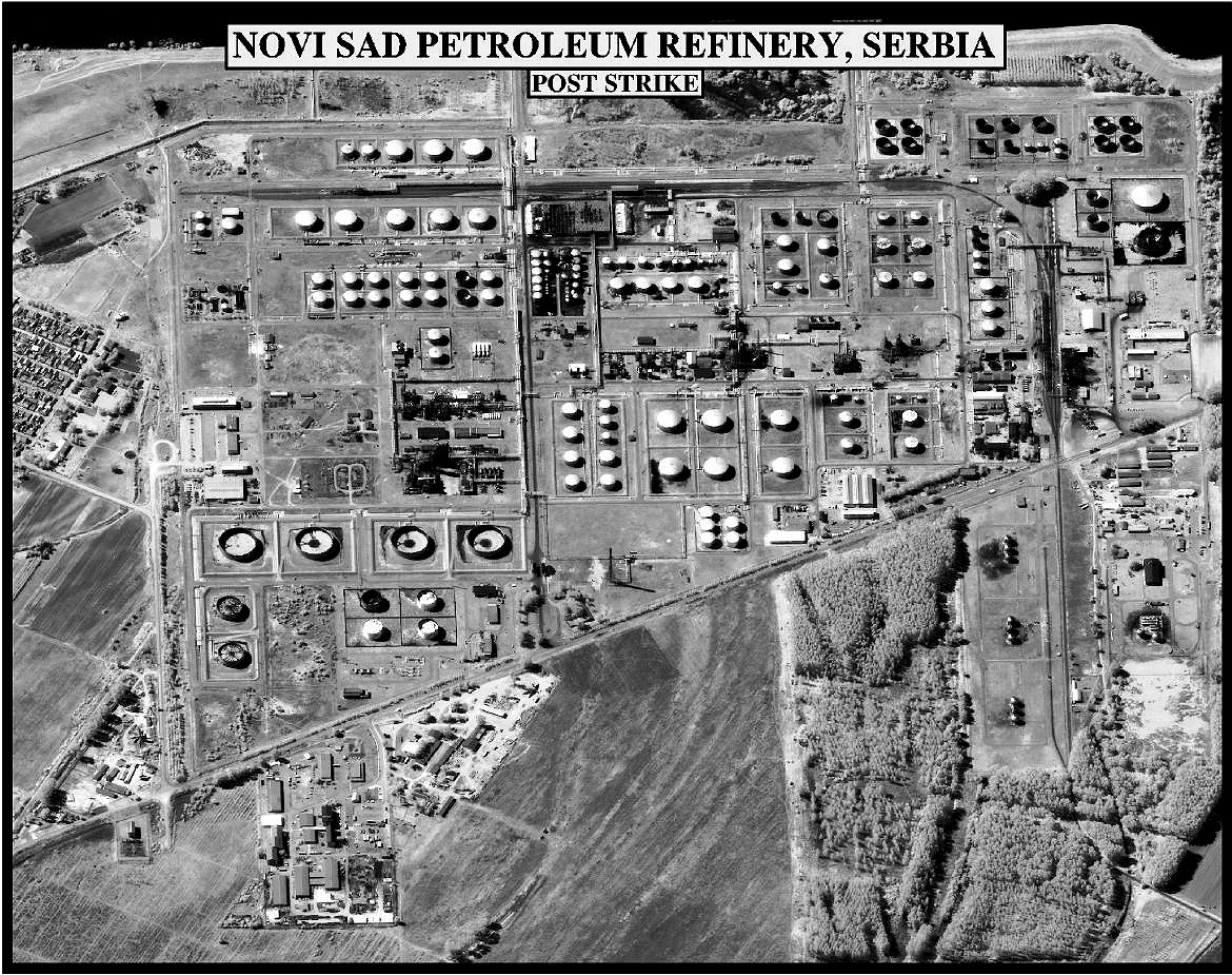 Post-strike assessment photograph of the Novi Sad Petroleum Refinery, Serbia, used by Joint Staff Vice Director for Strategic Plans and Policy Maj. Gen. Charles F. Wald, U.S. Air Force, during a press briefing on NATO Operation Allied Force in the Pentagon on April 22, 1999.